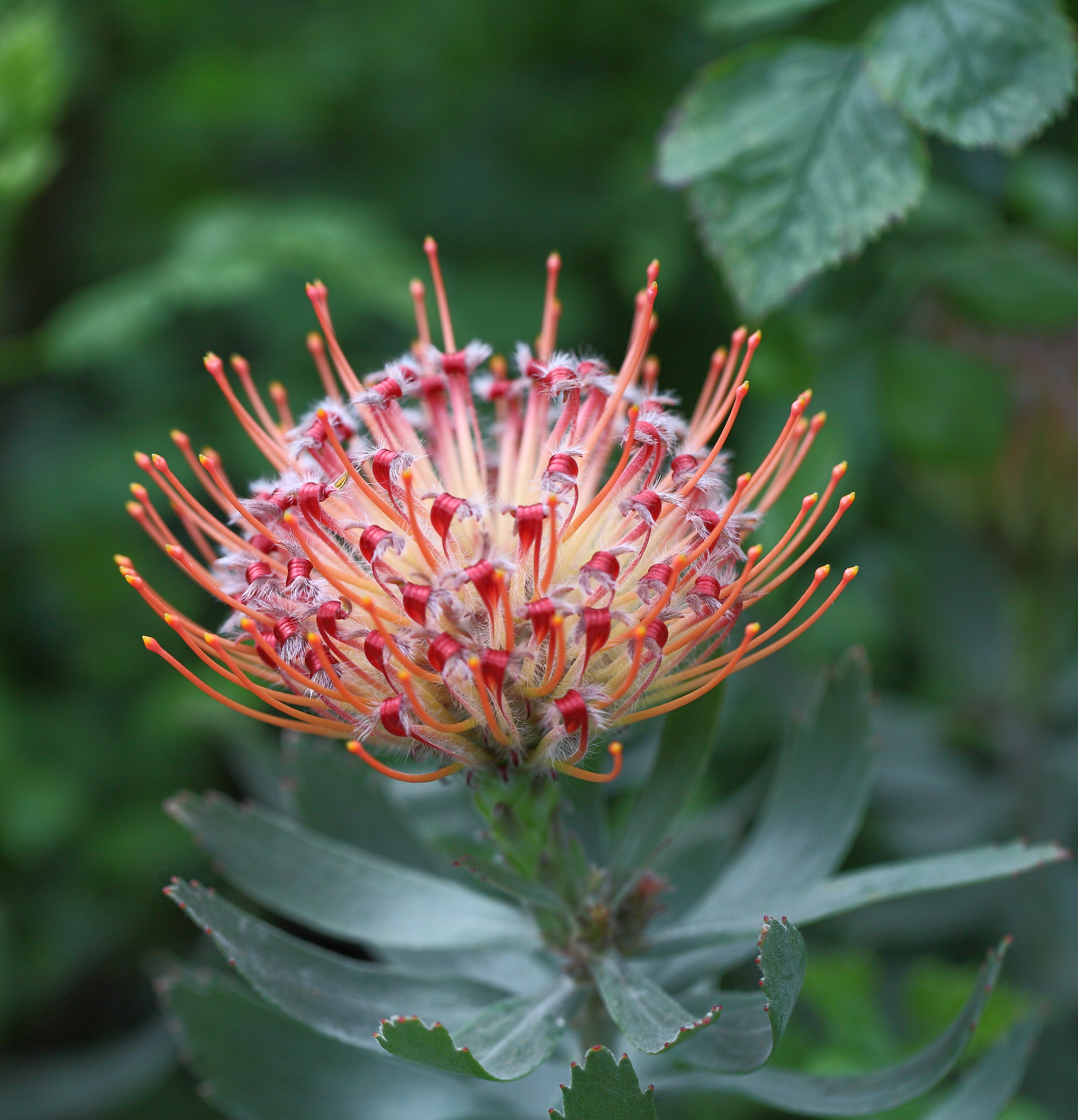 Leucospermum praecox, Botanic Garden, Munich, Germany